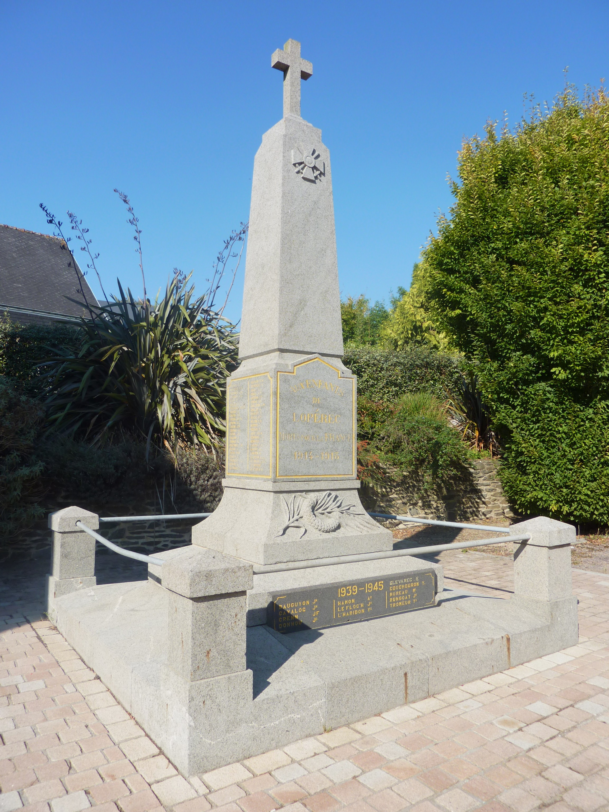 War memorial, Lopérec, Brittany.